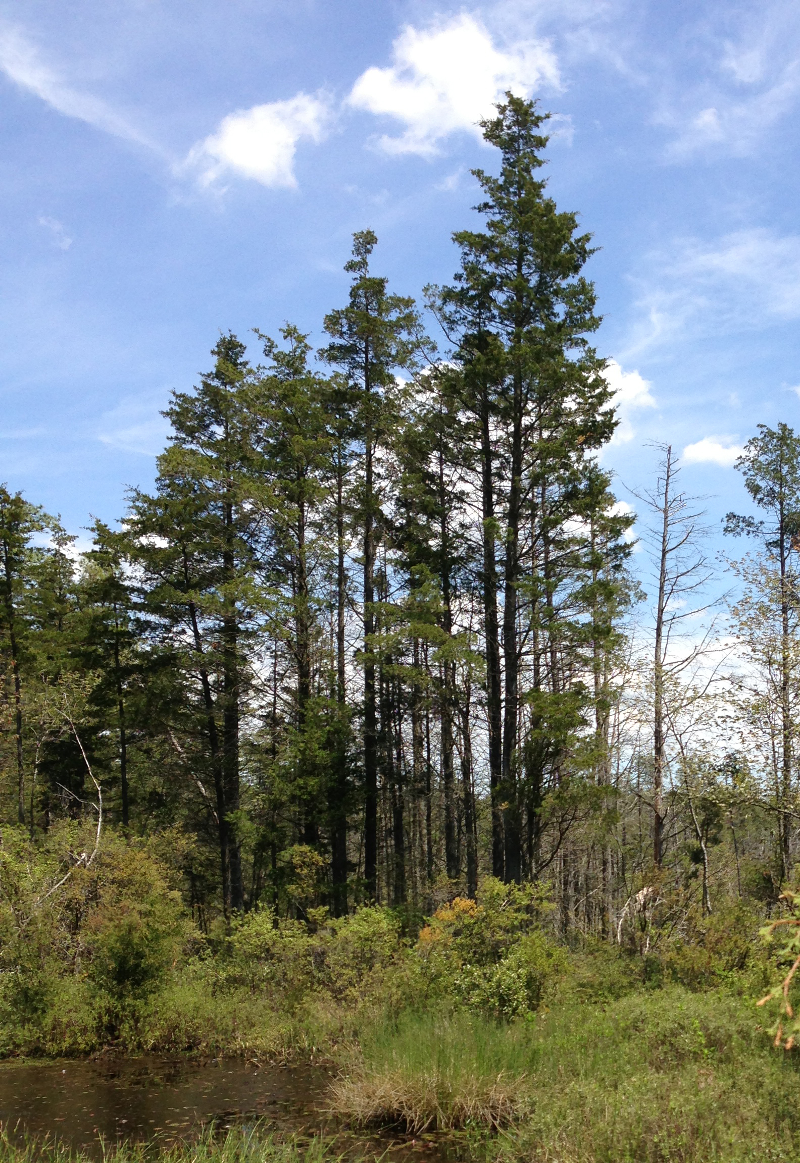 Chamaecyparis thyoides (Atlantic White Cedar) near the edge of a bog along the Mount Misery Trail in Brendan T. Byrne State Forest, New Jersey